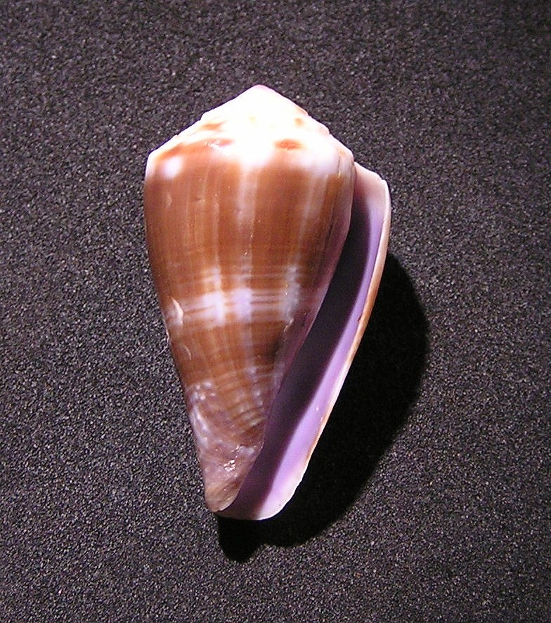 Conus balteatus G. B. Sowerby II, 1833 (synonym: Conus cernicus H. Adams, 1869) ; Madagascar